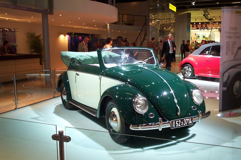 Green Volkswagen Beetle Convertible, 1949, IAA 2003, copyright Jens Frank, According to adjacent notice: cylindrage 1,113 cc Motor 4 cylinders 4 speed gear box perfomance 25 PS (18 kW) weight 800 kg fuel consumption: 7.5 ltrs./100 km max. speed 105 km/h (??)